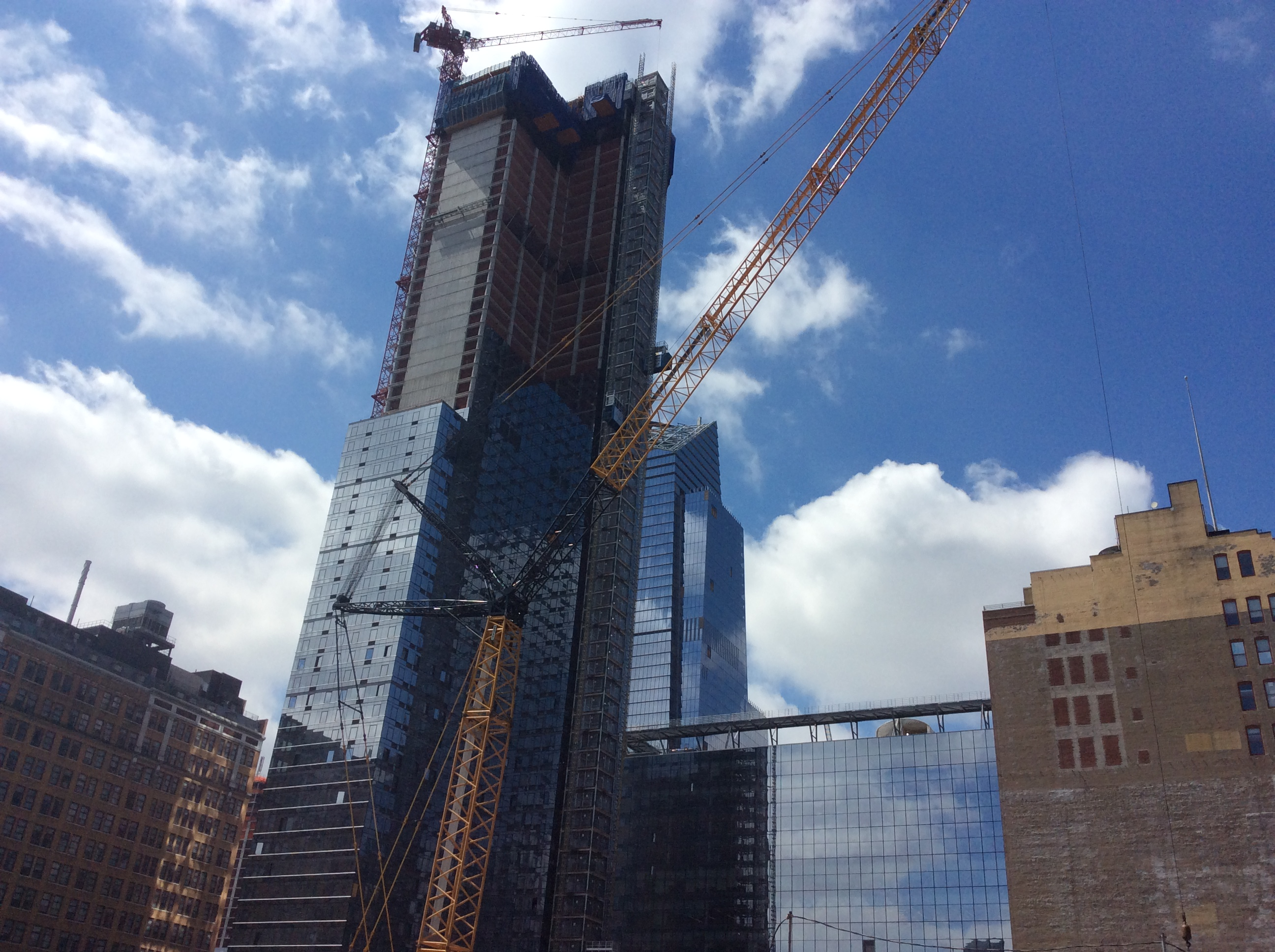 New York City's Manhattan West development in April 2016